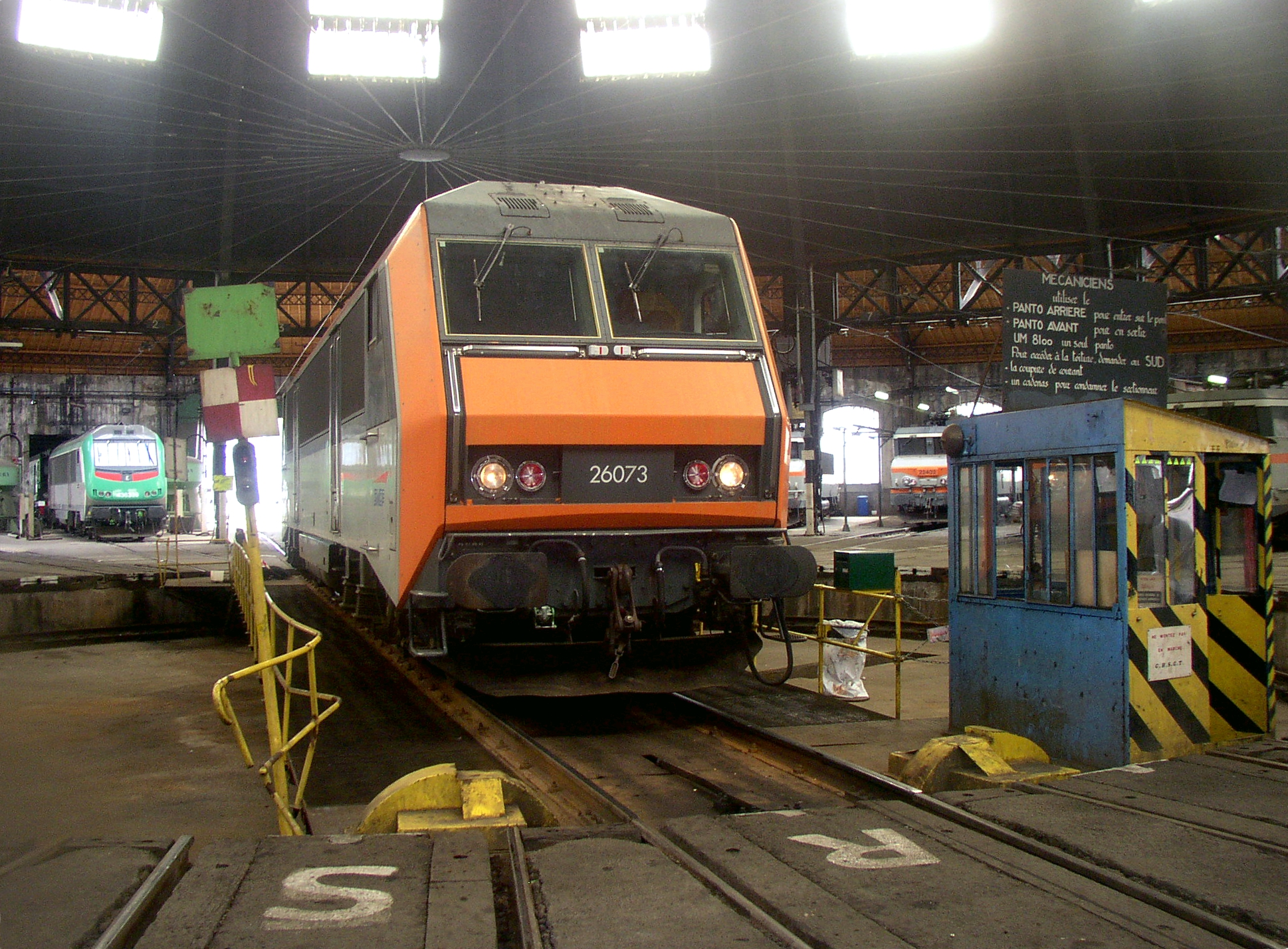 France SNCF Class BB 26073 locomotive on the turntable of Chambéry roundhouse, in Savoie.